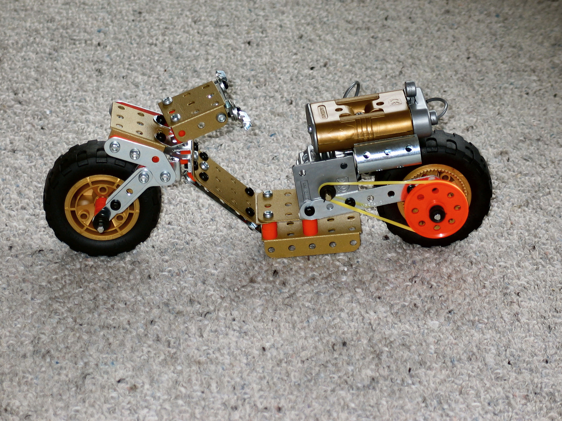 Meccano motorcycle, built using instructions which came with the set (Meccano motion system 50), 2005